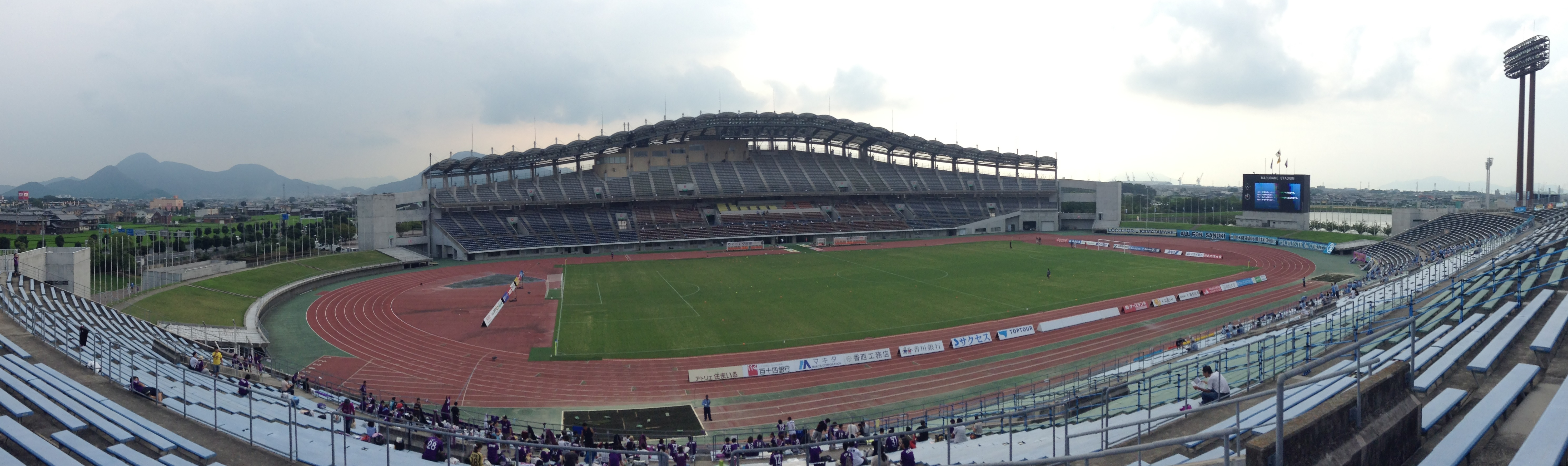 The panoramic photograph of Marugame Stadium. J. League Division 2 ,Kamatamare Sanuki vs Kyoto Sanga F.C., 24 August, 2014